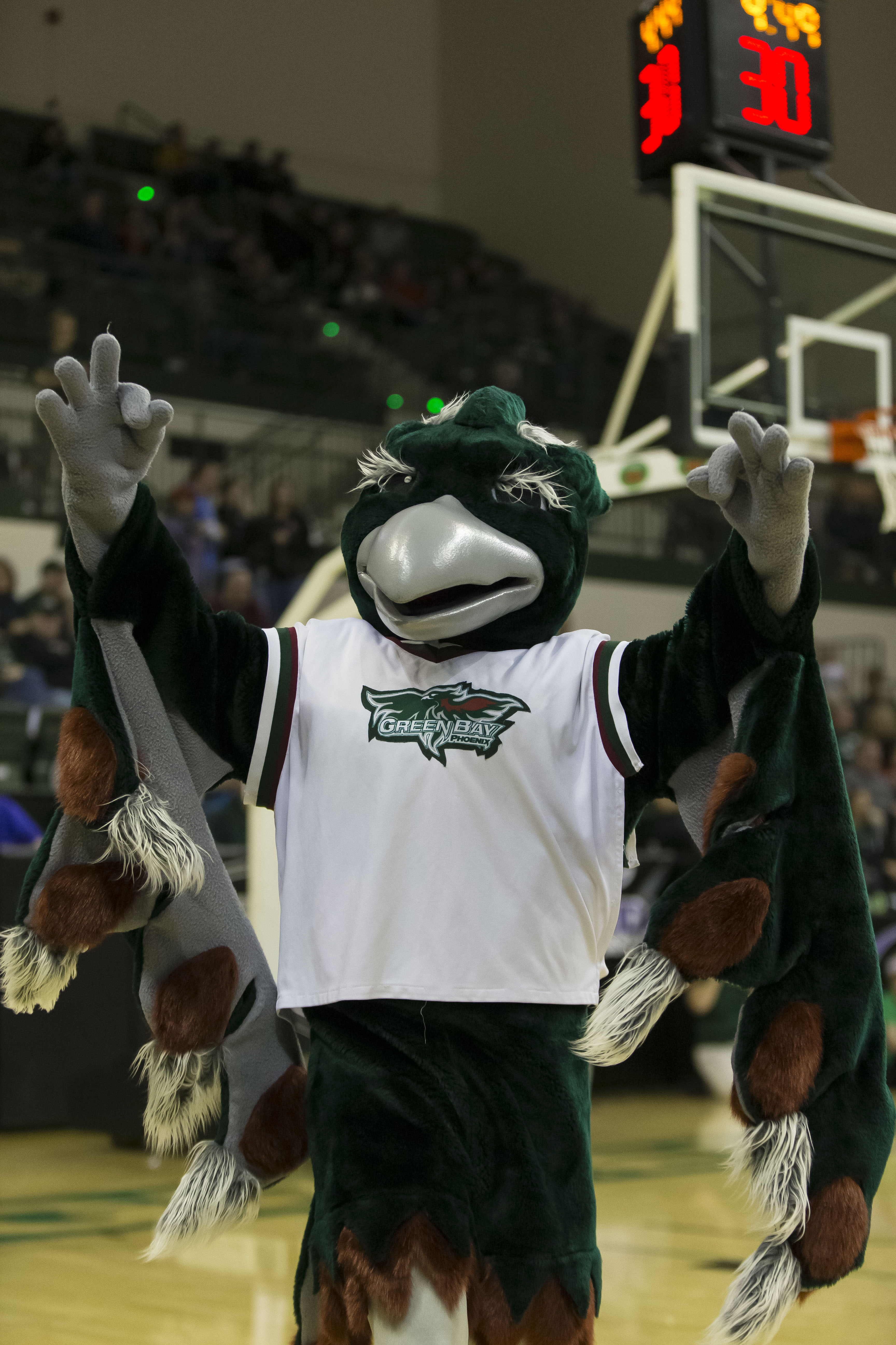 The new University of Wisconsin - Green Bay (UWGB) Green Bay Phoenix Mascot 2018